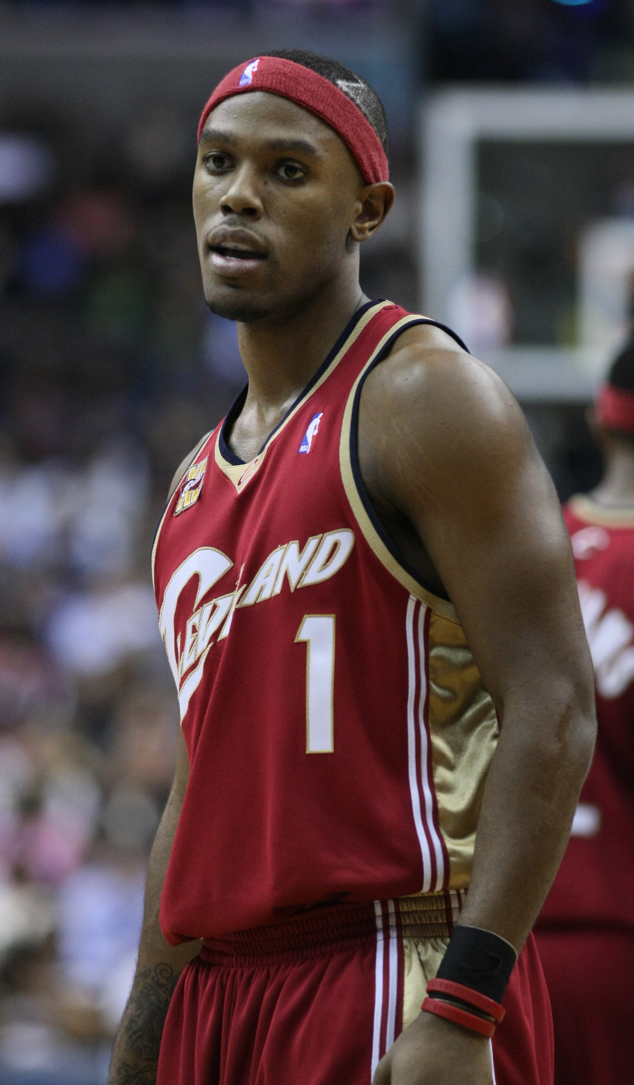 Daniel Gibson playing with the Cleveland Cavaliers